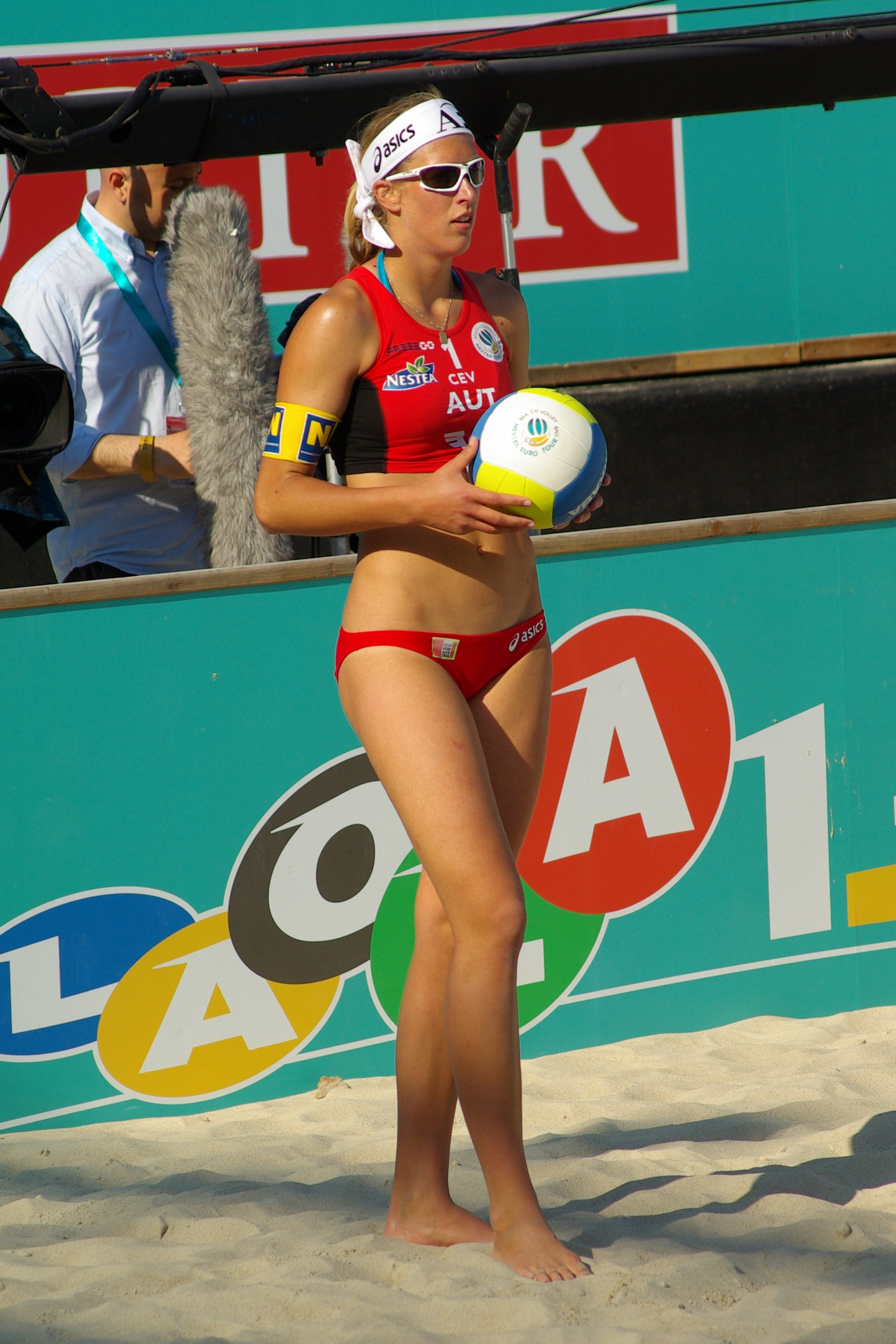 Austrian Beach volleyball player Stefanie Schwaiger at the European Championship Tour 2008 Austrian Masters in St. Pölten.